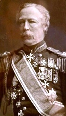 François de Casembroot